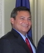 Guam Governor Eddie Calvo on March 1, 2011, at the 2011 Interagency Group on Insular Areas (IGIA) on in Washington D.C. (cropped from original)